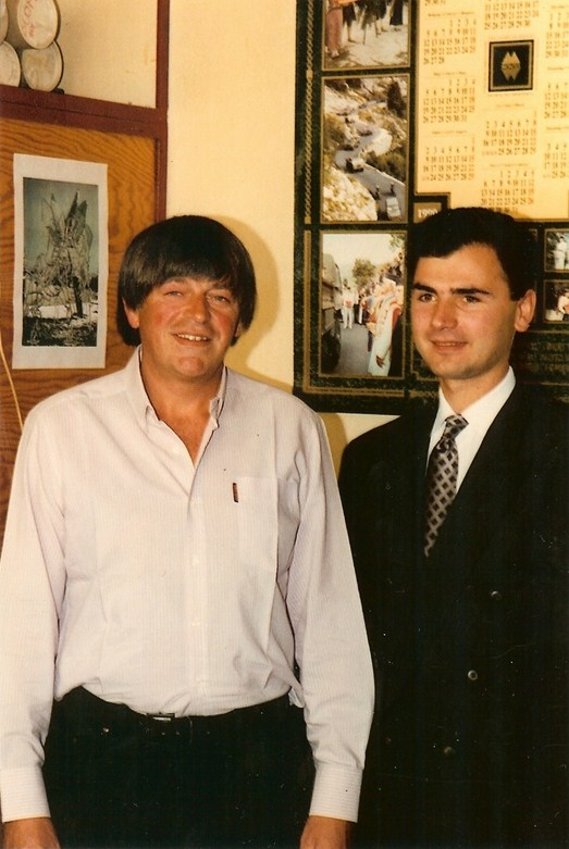 Stojanović, right, with Prince Nicholas Petrovic Njegos of Montenegro in the Prince's apartment.